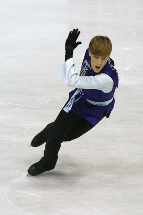 2008 European Figure Skating Championships - Tomáš Verner